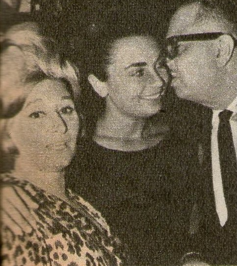 Gloria Montes, Julia Alson y Julio Porter